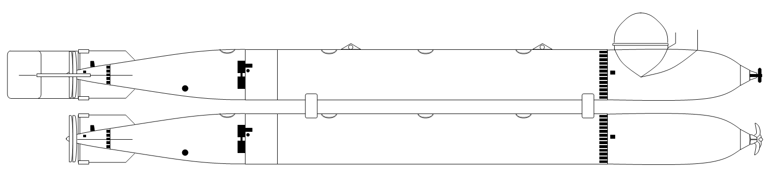 Drawing of a German Neger human torpedo.